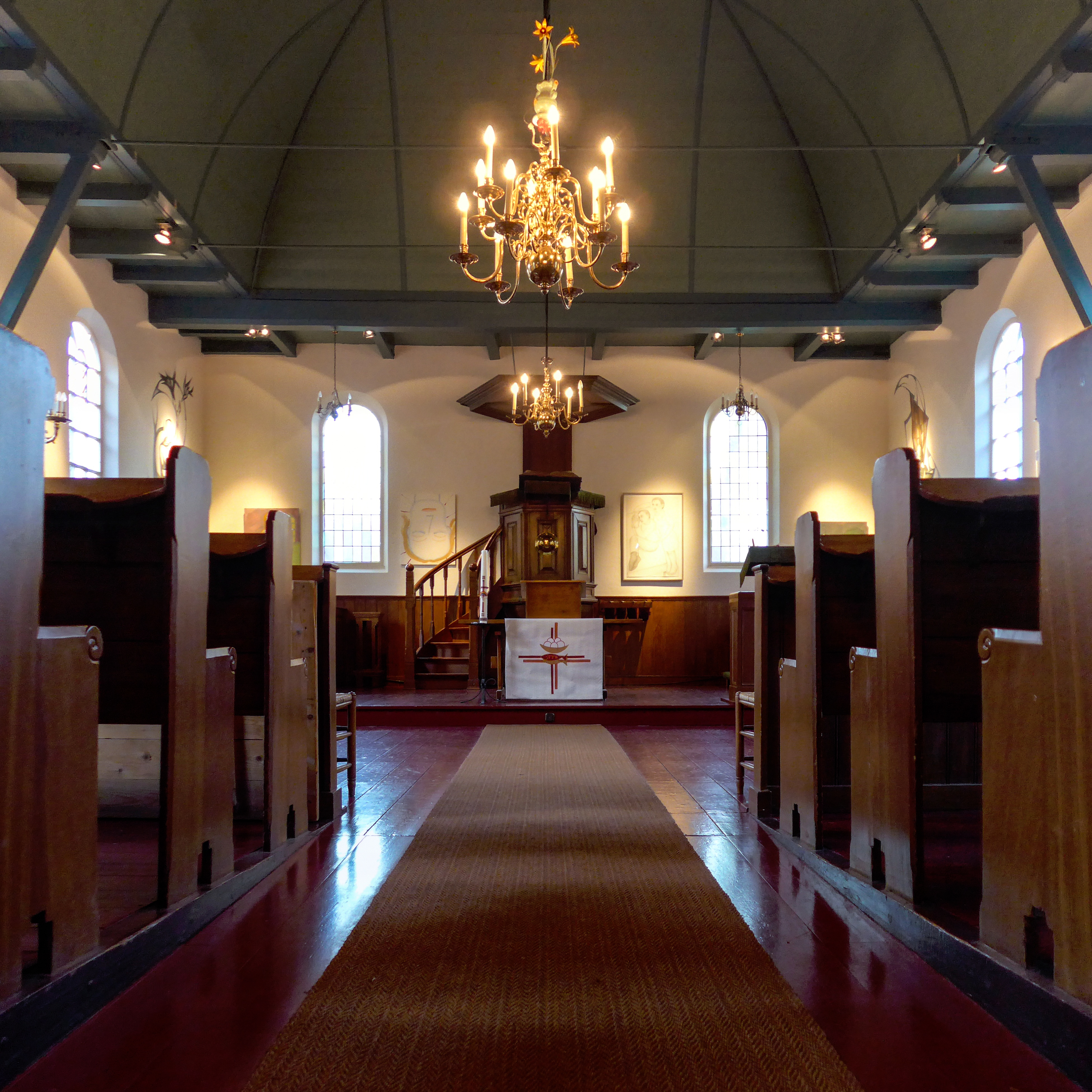 Interior of the Dutch reformed church of Nes, a village on the Dutch island of Ameland.